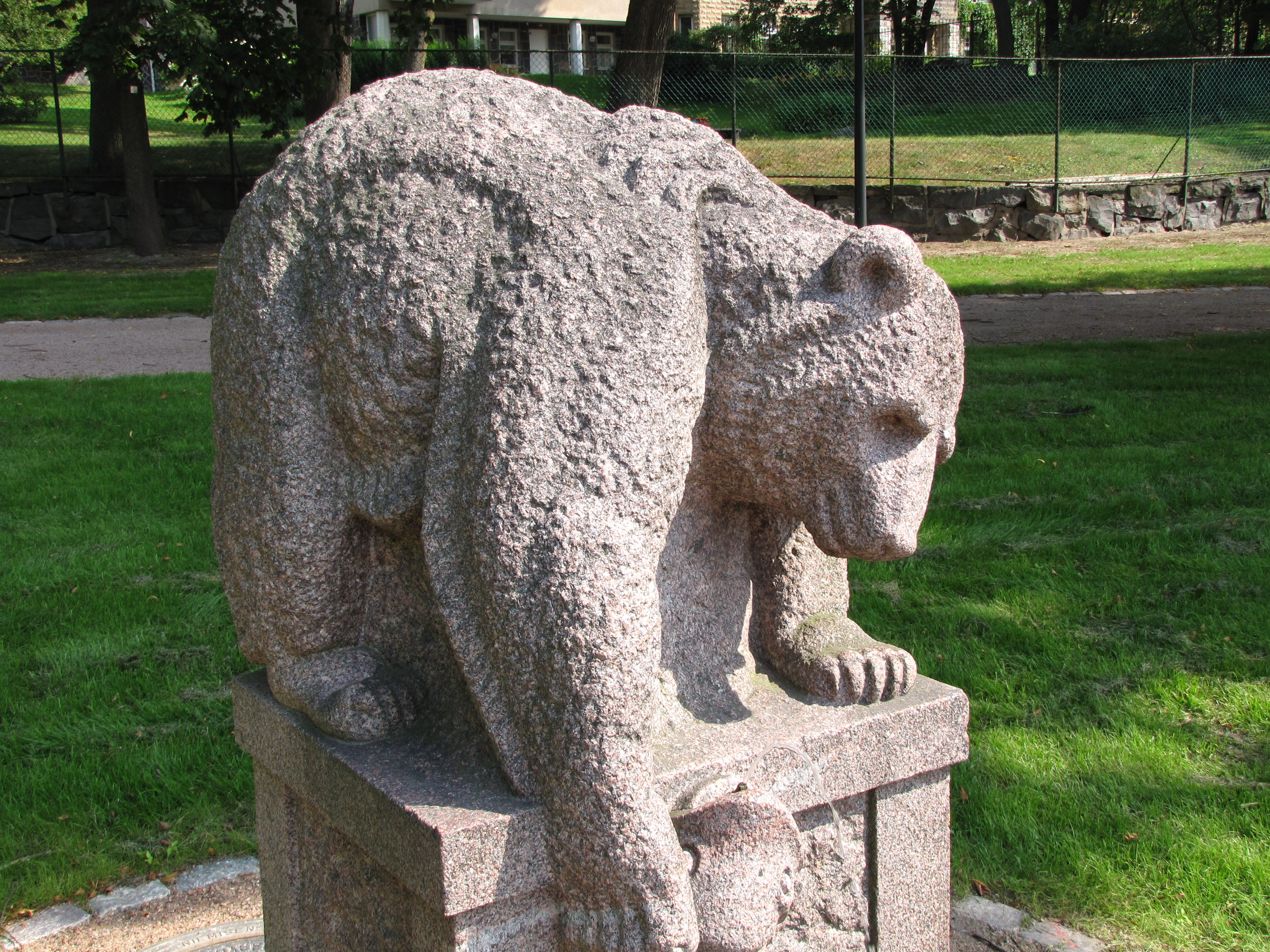 Kalastava karhu (fishing bear) fountain statue in Kaivopuisto. Sculpted by Bertel Nilsson (1887 - 1939) in 1916.